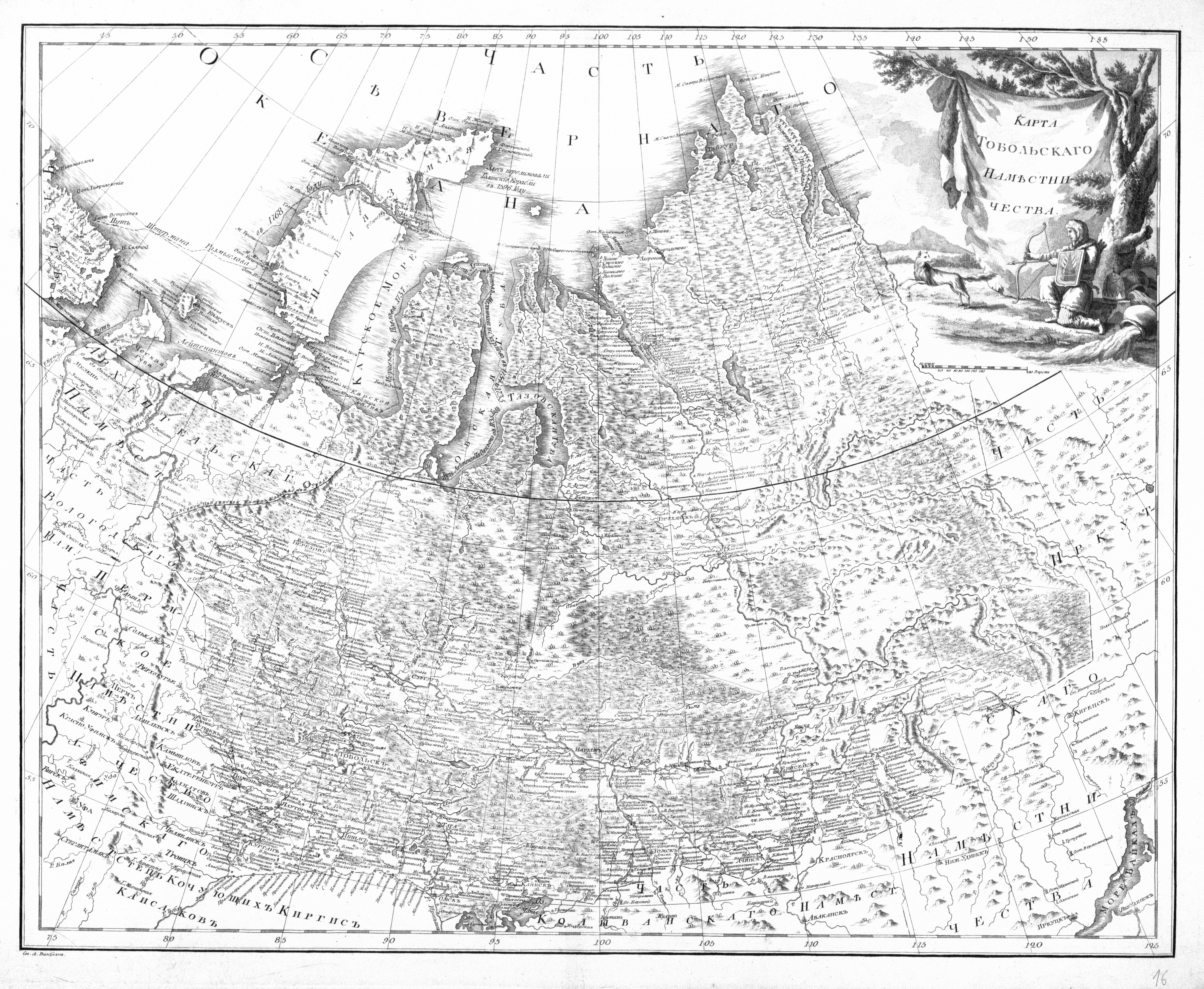 Map of Tobolsk Namestnichestvo (sheet 16) from official Atlas of the Russian Empire (1792).